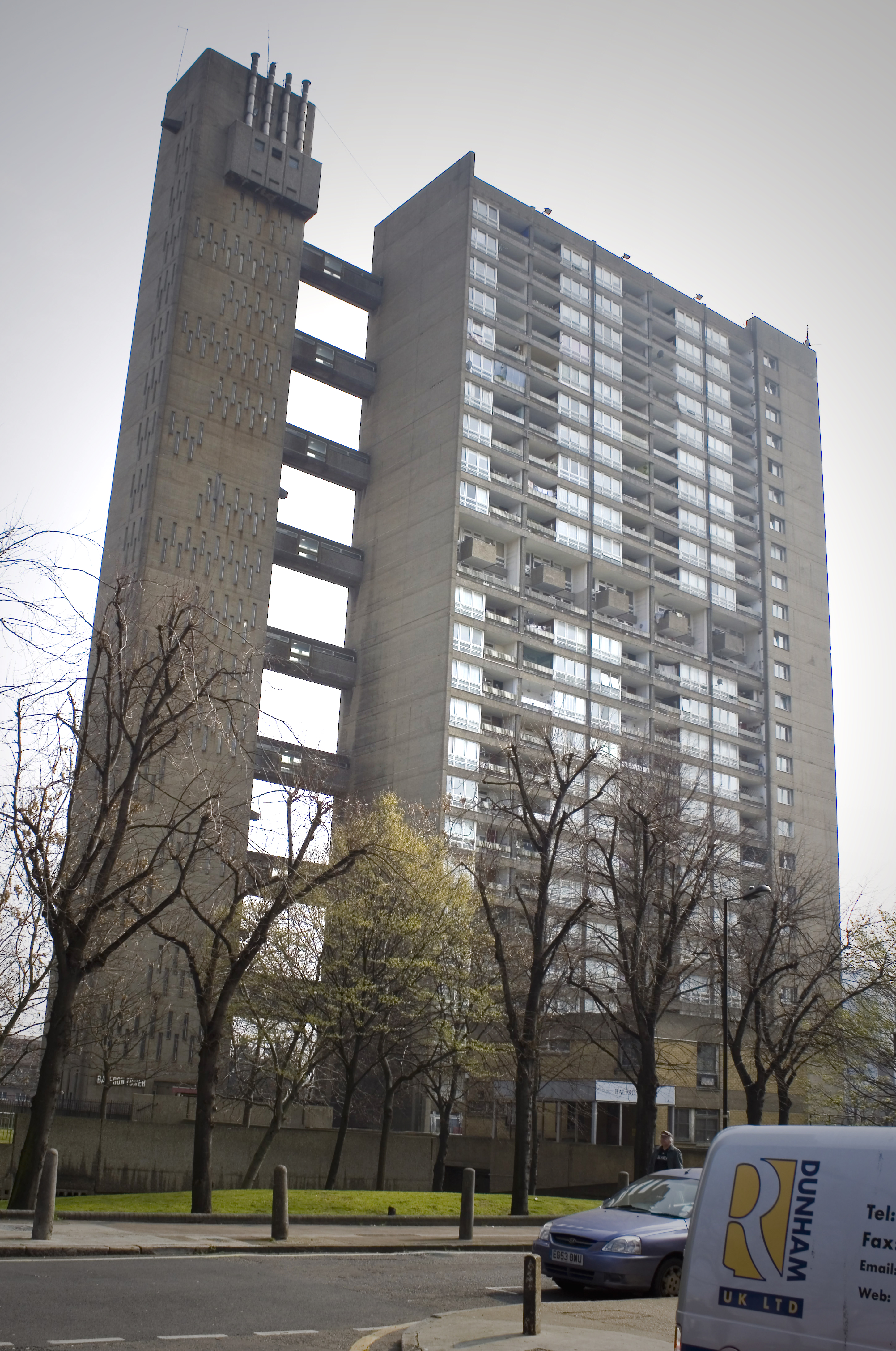 Erno Goldfinger brutalist architecture